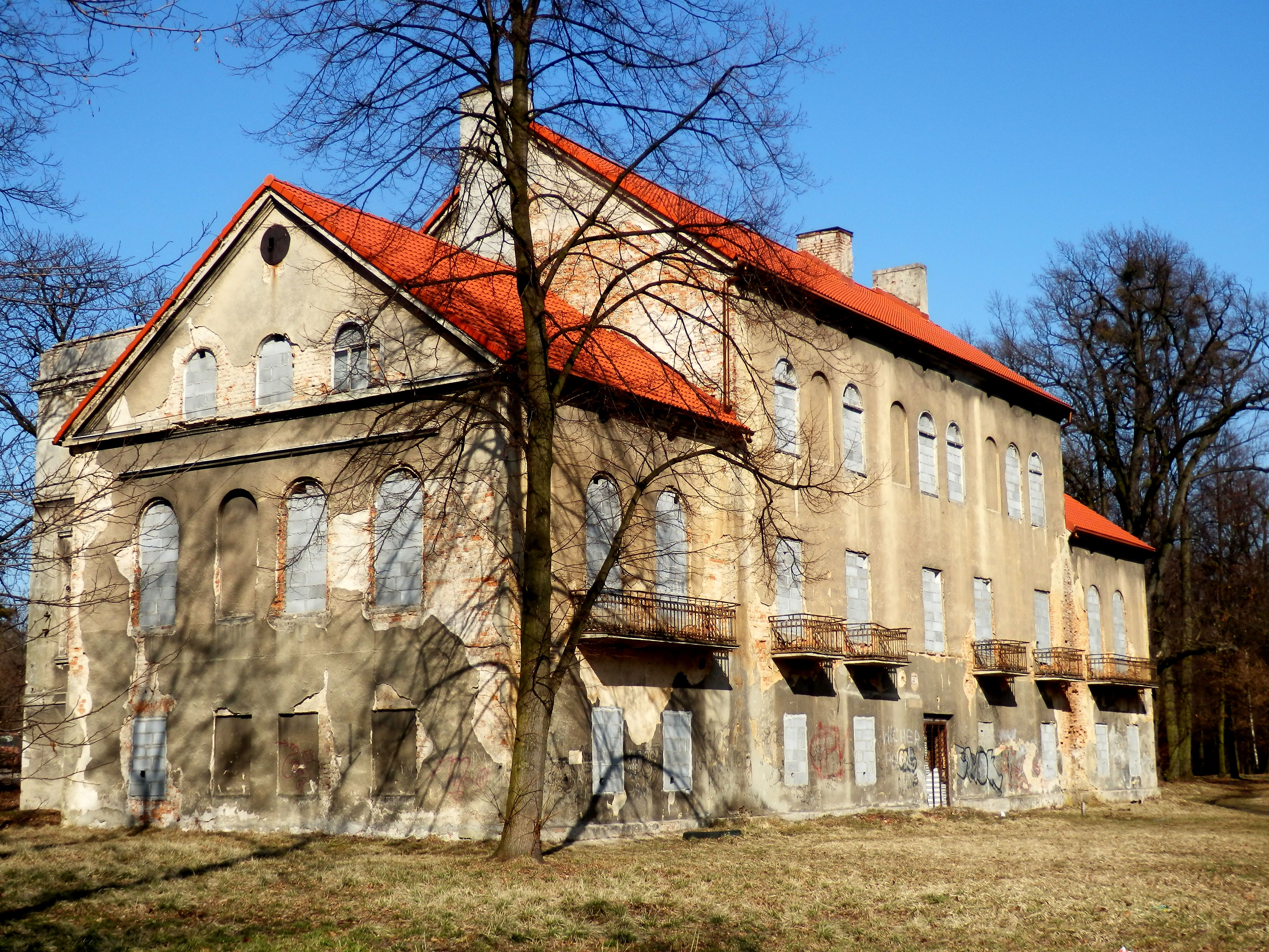 Baranowice, Żory, Upper Silesia: Palace, 19th-century.